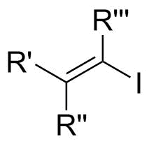 General structure of vinyl iodides with trhee undefined R-group substituents